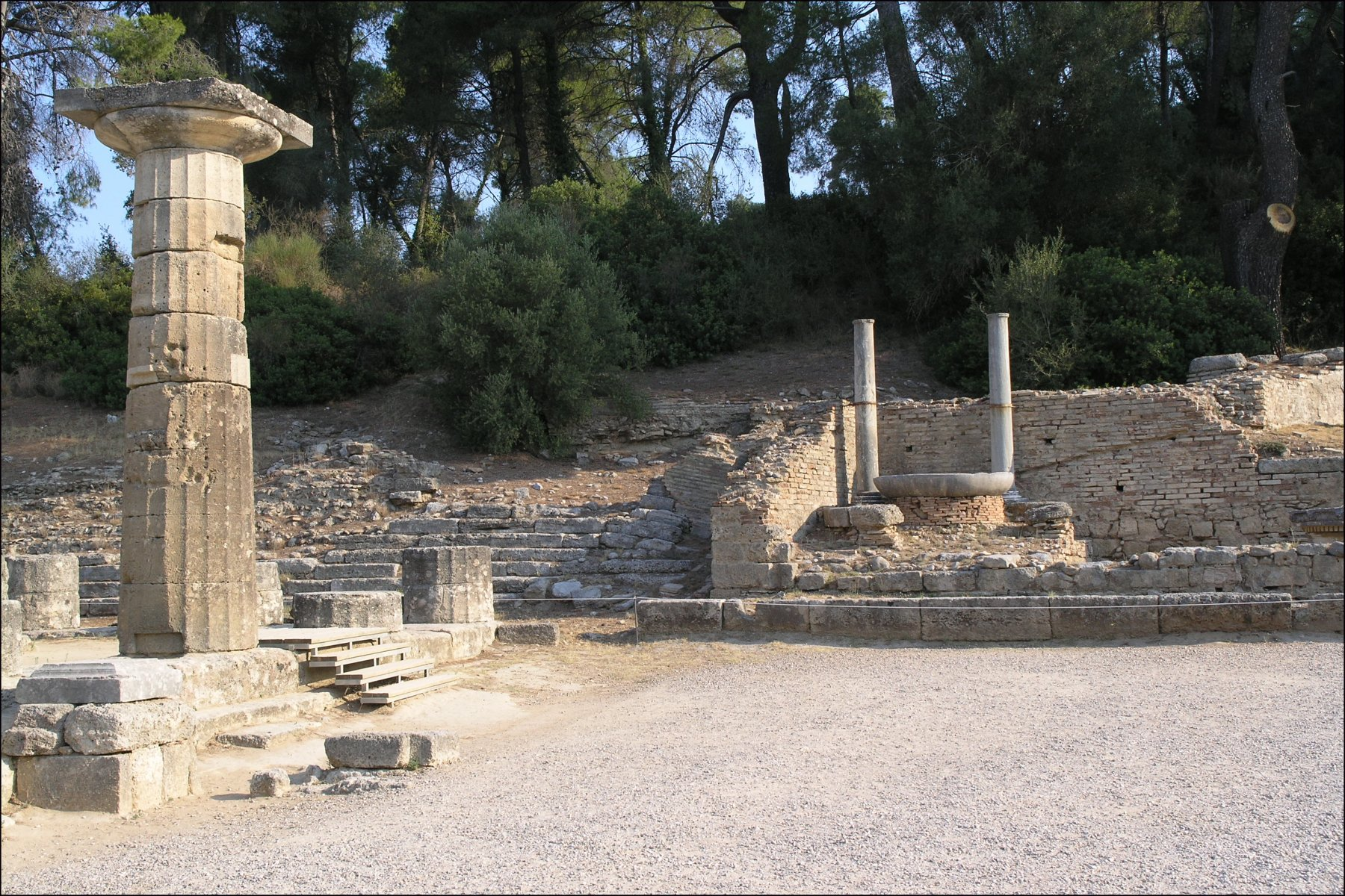 Olympia, Greek